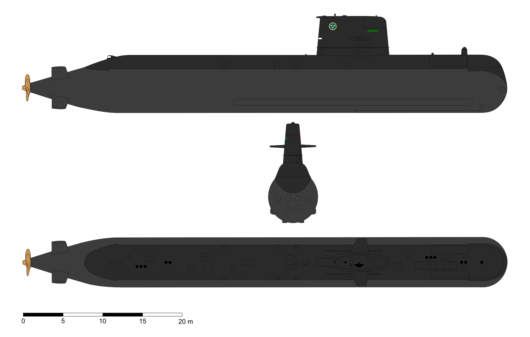 Swedish submarine class Gotland.